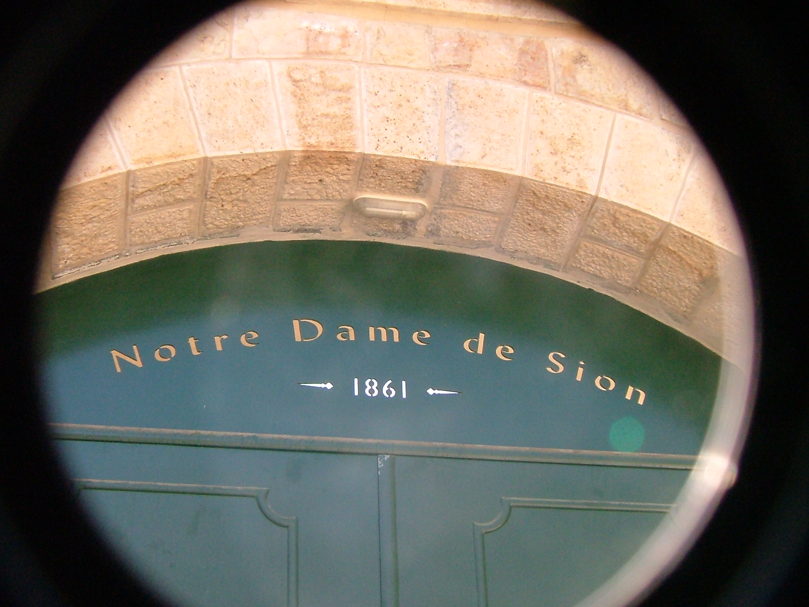 Inscription on the gate of Notre-Dame de Sion, Ein Kerem, Jerusalem, Israel.